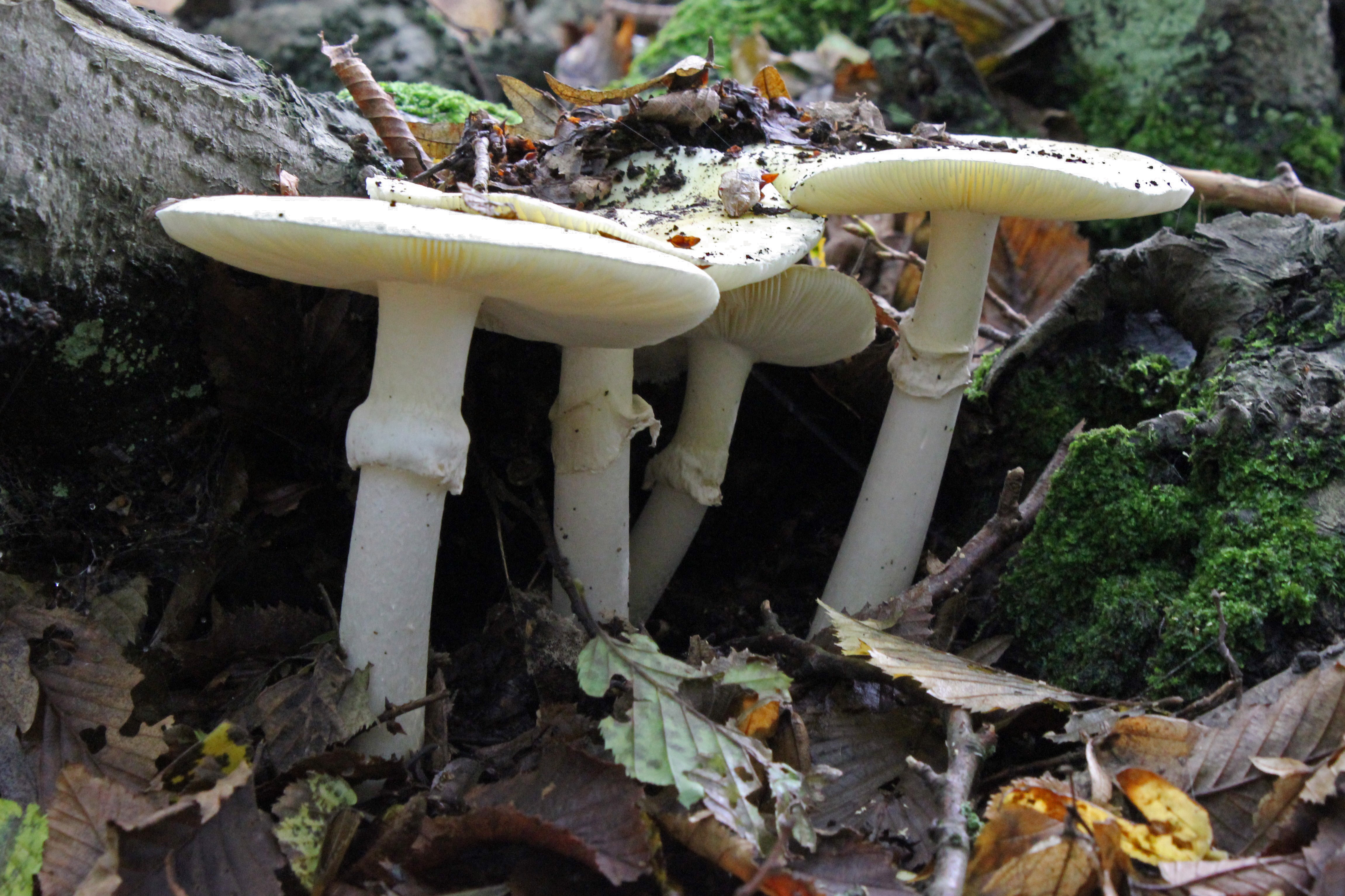 Death Cap